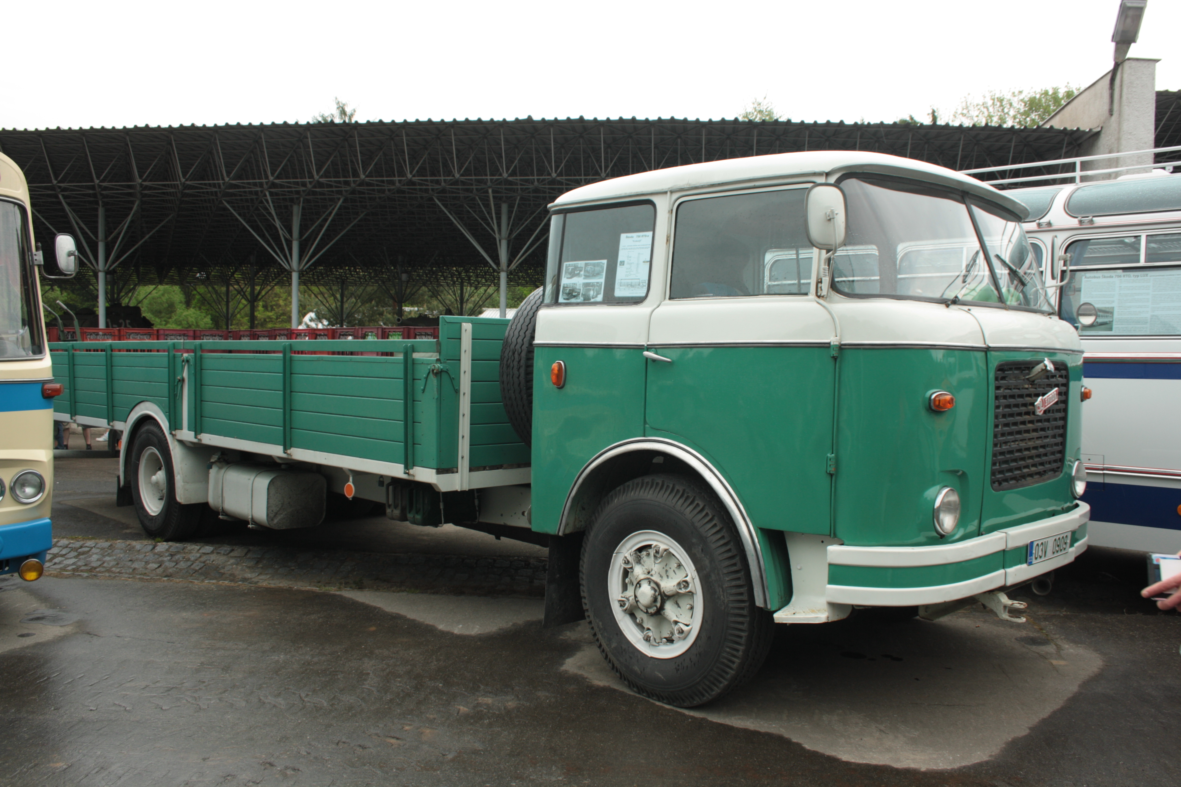 Czechoslovak Škoda 706 RTD truck in Lešany military museum, Central Bohemian Region, CZ This photograph was taken with a DSLR from WMCZ's Camera grant. This picture was taken and/or got within the scope of the 'Acquiring scientific and specialized pictures' grant.